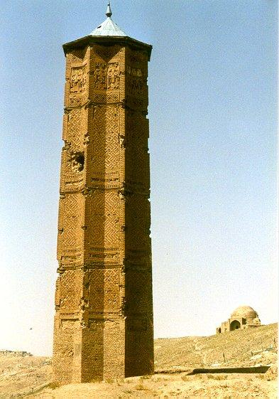 Twelfth century minaret in Ghazni.